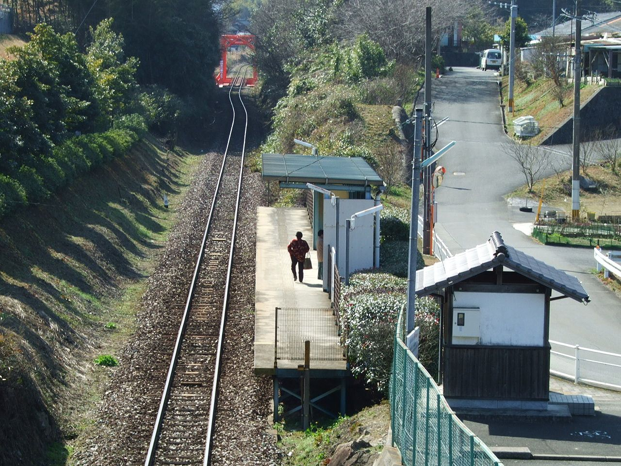 Genjiinomori Station, Tagawa Line, Heisei Chikuho Railway, Aka village, Fukuoka, Japan.